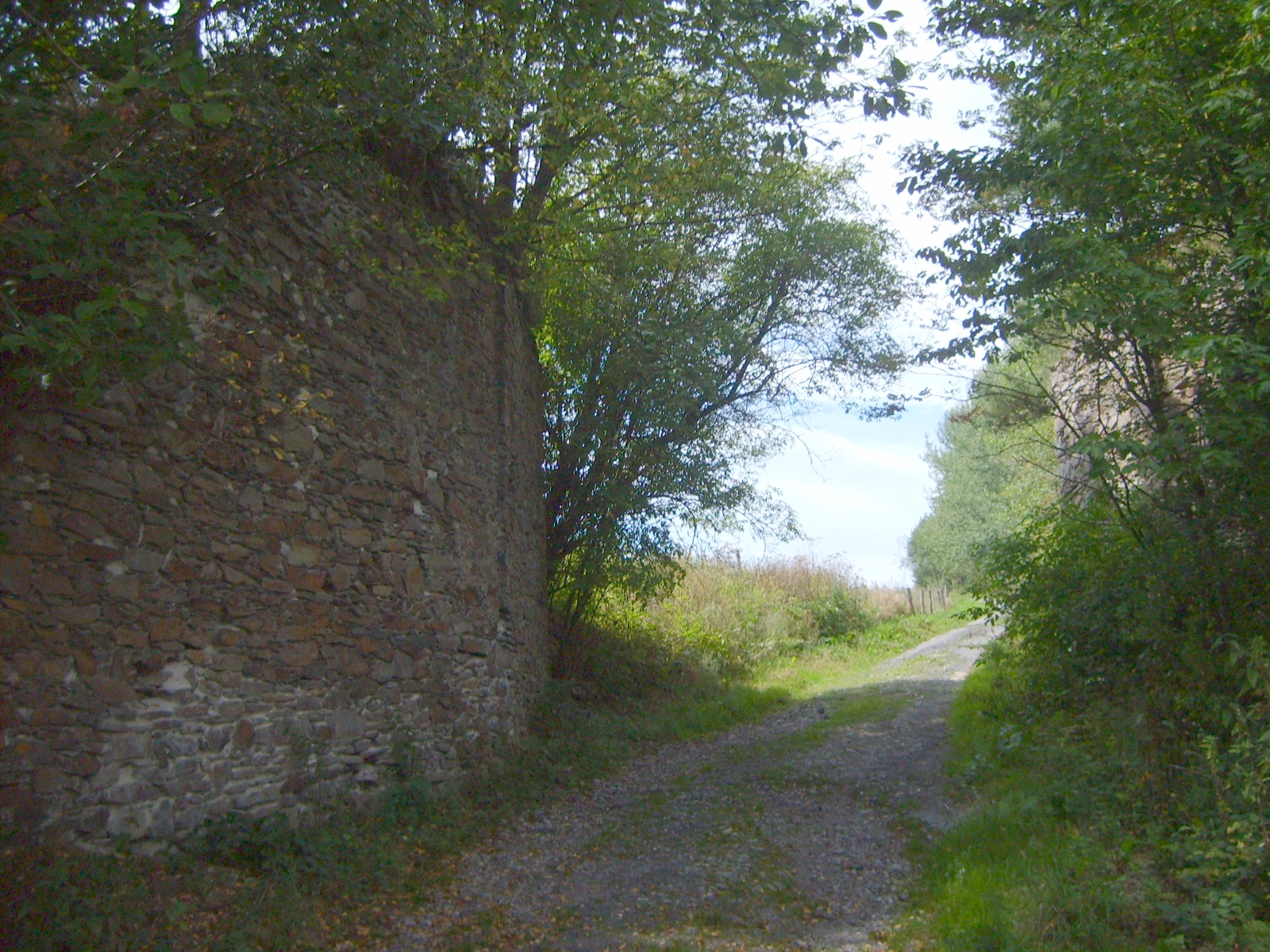 Former horsy track Budweis - Linz near Dolní Dvořiště